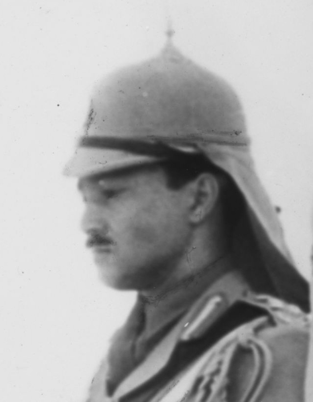 'Coronation' of King Abdullah in Amman. (right to left) King Abdullah, Emir Abdul Illah (Regent of Iraq), and Emir Naif (King Abdullah's youngest son